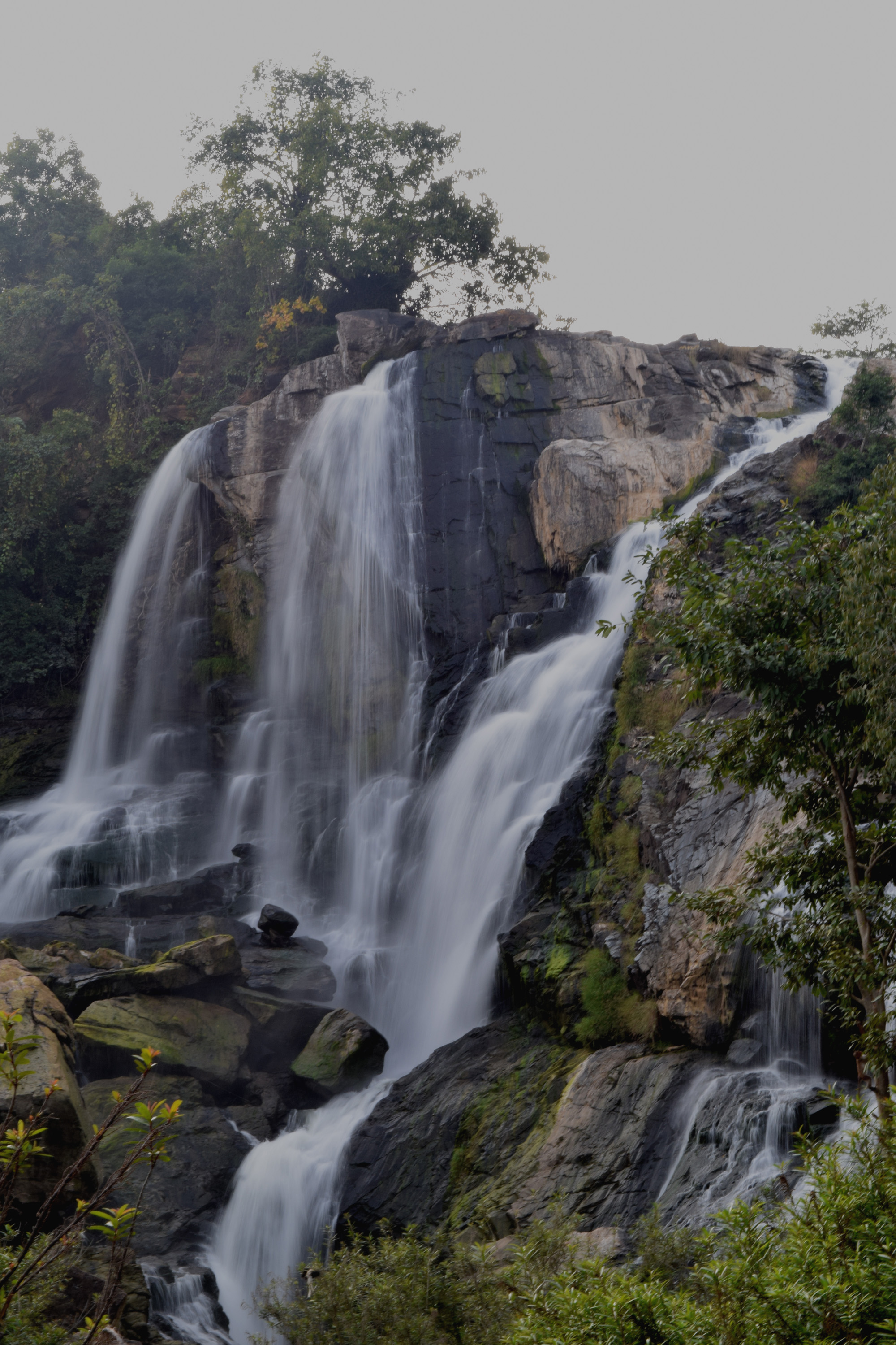 Shivanasamudra waterfalls in Karnataka